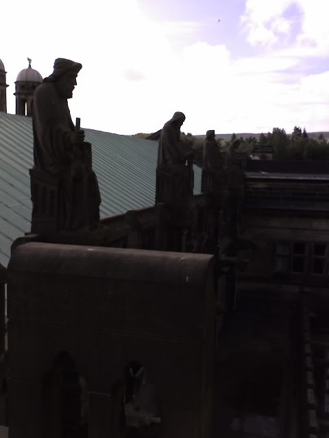 Boys' Chapel Roof, Stonyhurst College